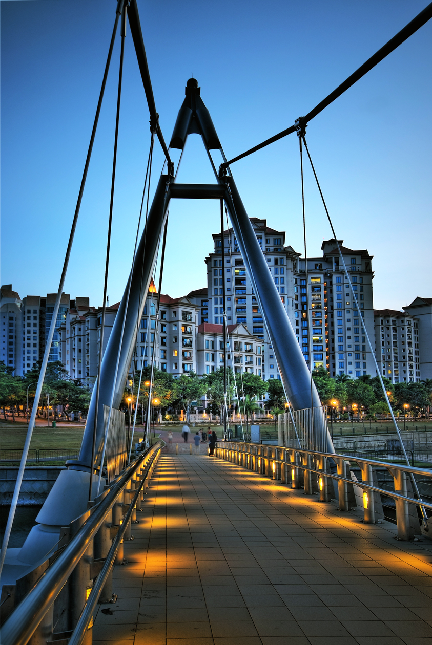 Singapore's first suspension footbridge was built in 1998. The bridge spans the Geylang River and allows residents of Tanjong Rhu to cross over to the Singapore Indoor Stadium. Best viewed on BLACK